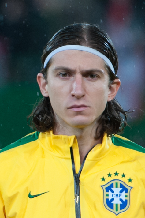 International Friendly Austria - Brazil November 18, 2014: Filipe Luís